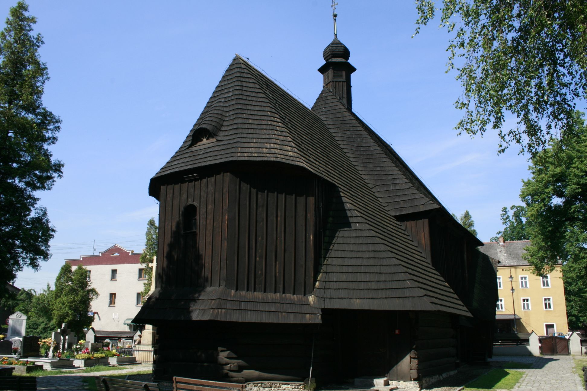 The wooden graveyard small church St. Valentine's from the XVI/XVII turn of the age in Bieruń